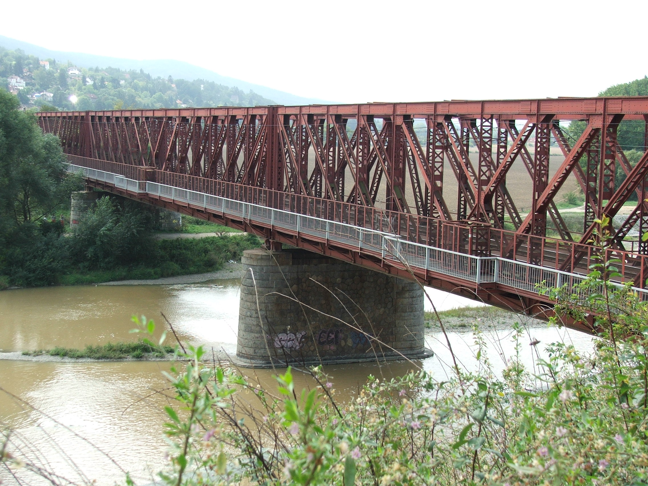 Railway bridge over Berounka in Černošice - Mokropsy near Prague, Czechia